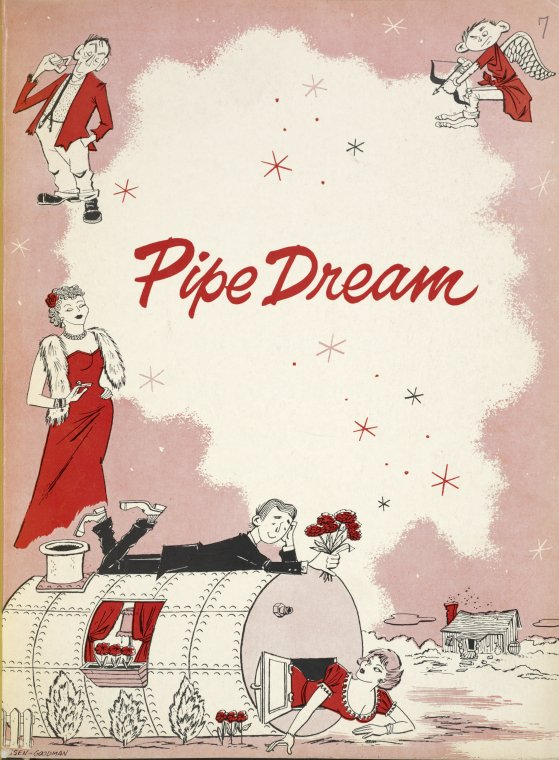 Program cover for Pipe Dream